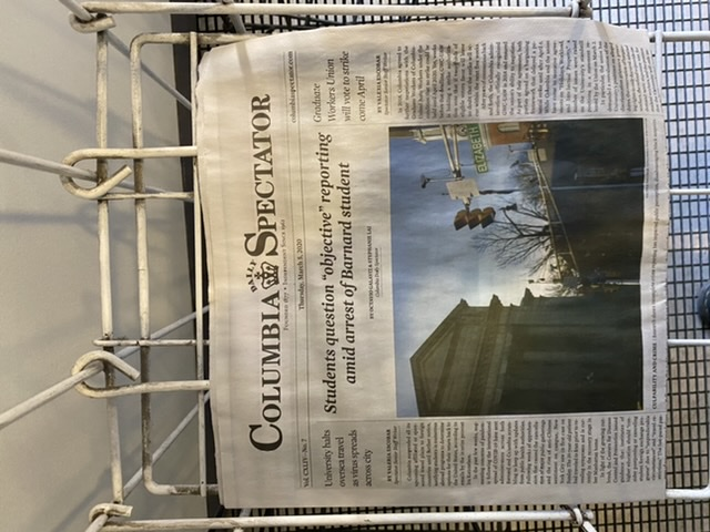 Columbia Daily Spectator